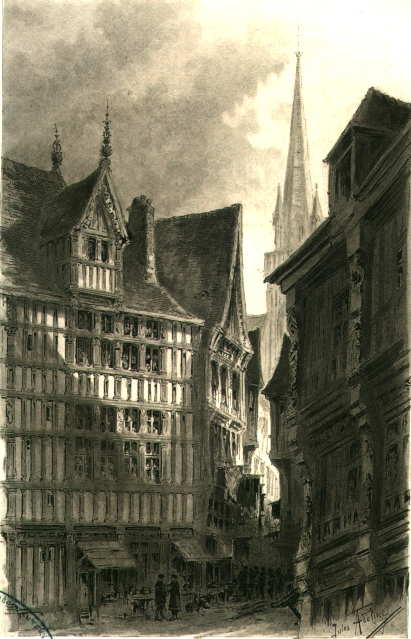 Etching by French printmaker Jules Adeline (1845-1909) for "Maisons normandes" by Fernand de Mély (1889). First published in Les Lettres et les Arts, December 1st, 1888.